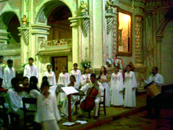 Church in San Javier, Ñuflo de Chávez, Santa Cruz, Bolivia. Part of the Jesuit Missions of the Chiquitos World Heritage Site.